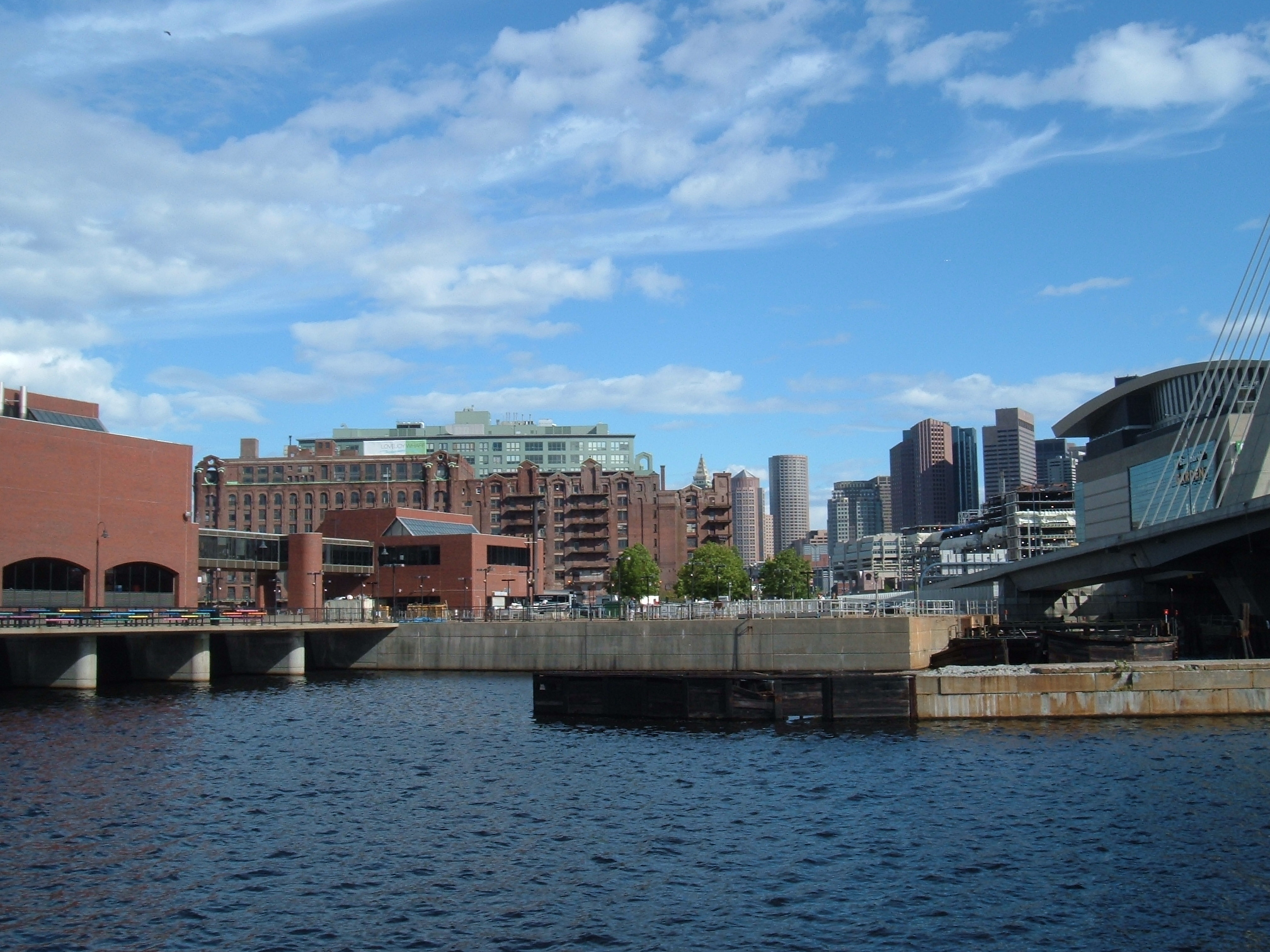 View of the Charles River Dam from the Charlestown shore, looking southeast